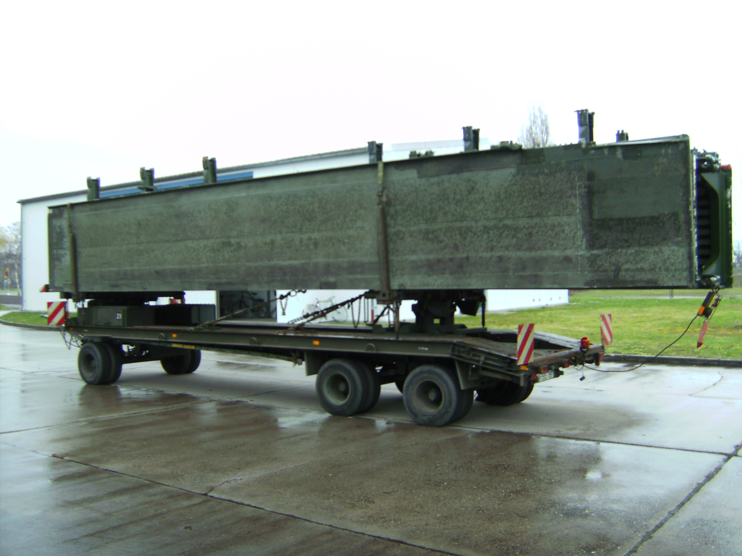 Bridge of AVBL Biber on Multi-purpose trailer 15to